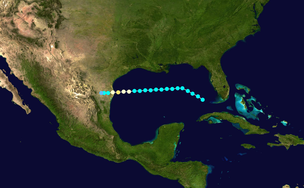 1909 Atlantic hurricane 2 track.png track. Uses the color scheme from the Saffir-Simpson Hurricane Scale.